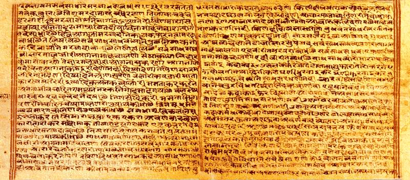 Letter of Conduct written by Acharya Bhiksu (1st Head of Jain Swetamber Terapanth Sect) written in Rajasthani language